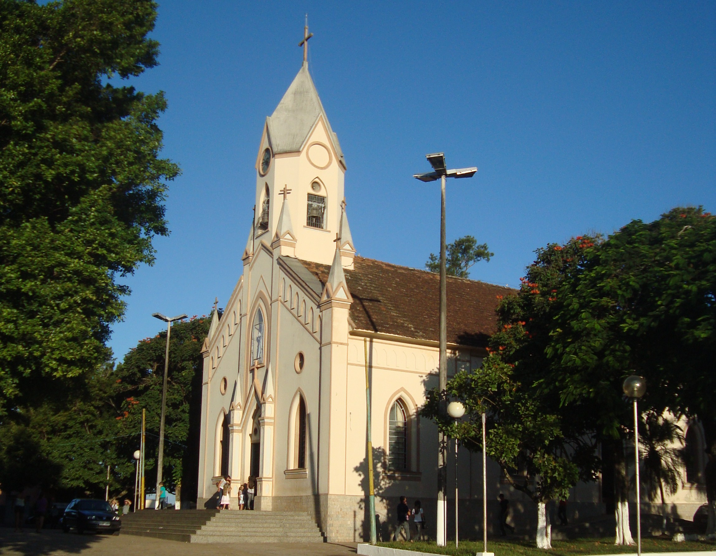 Saint Joachim church in downtown Alterosa, Minas Gerais, Brazil